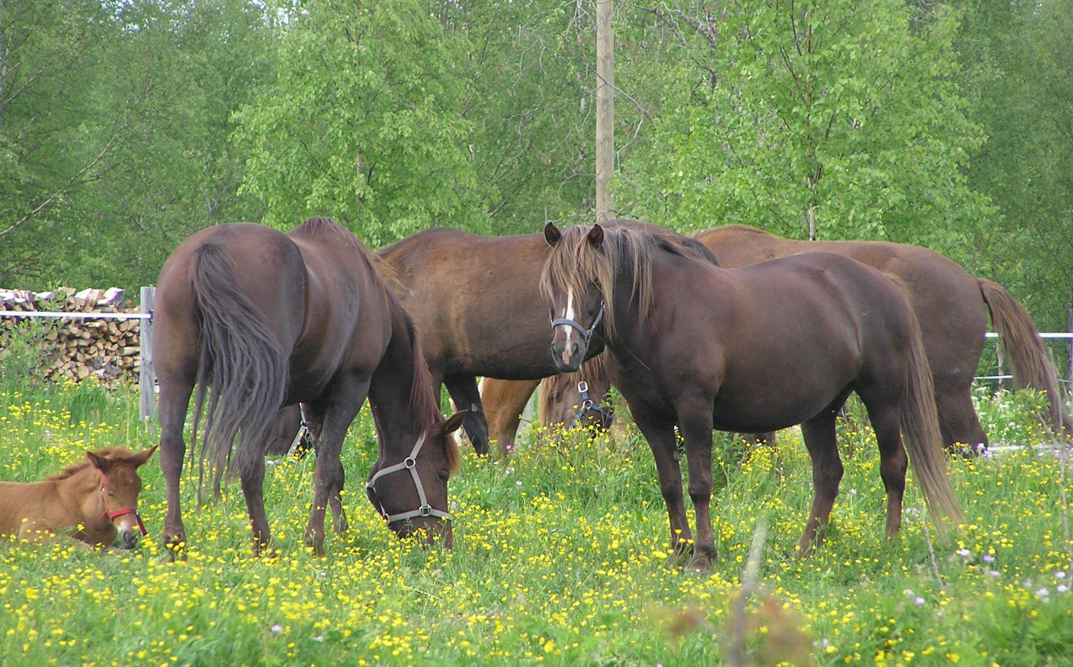 Finnhorse mares Viive (left) and Tuli-Toto (right) enjoying the summer of 2006.